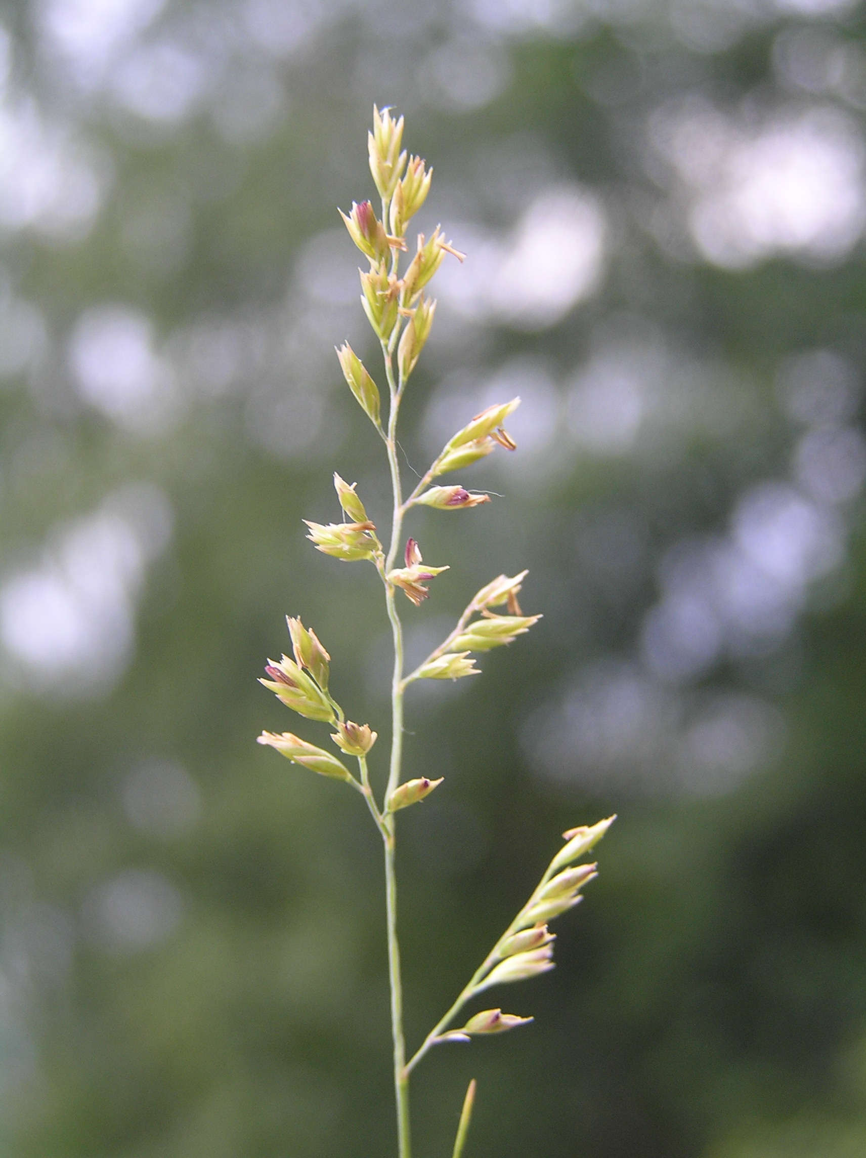 Festuca filiformis, Rusava, Moravia, Czech Republic